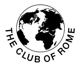 Club of Rome Logo